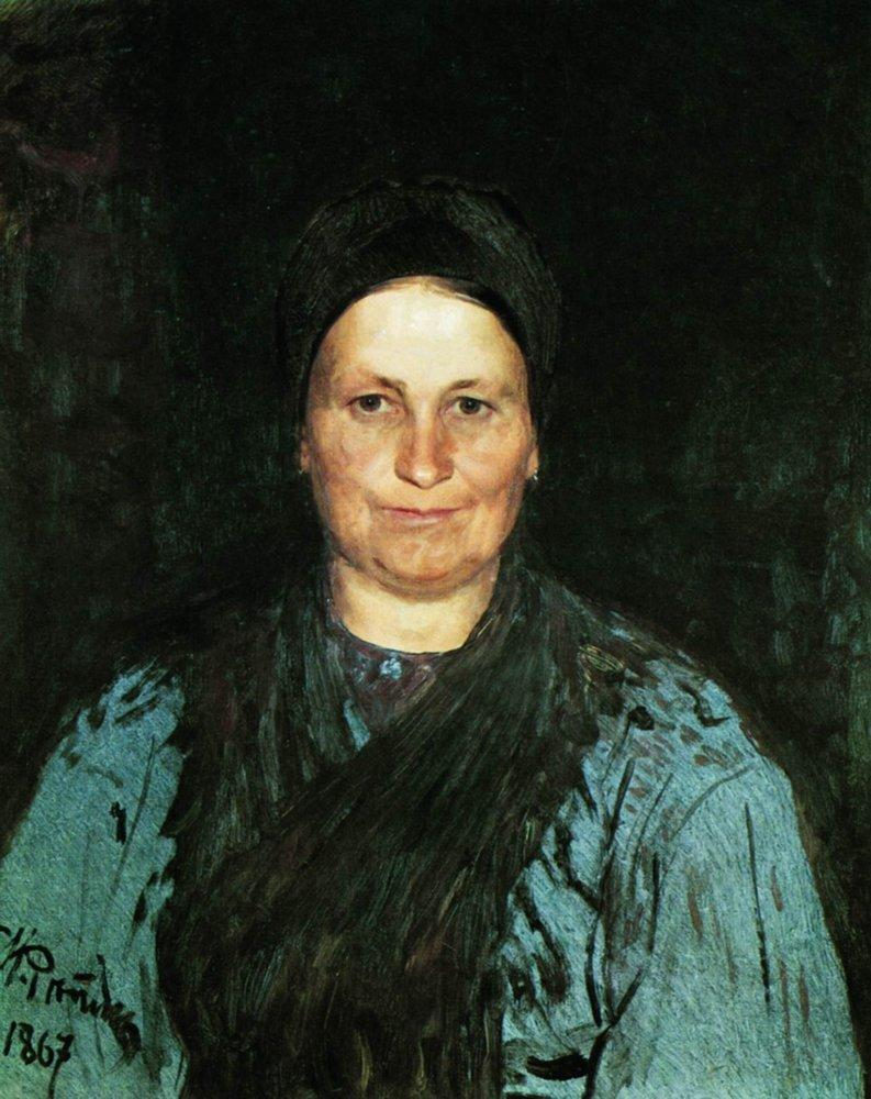 Portrait of Tatyana Stepanovna Repina, the artist's mother